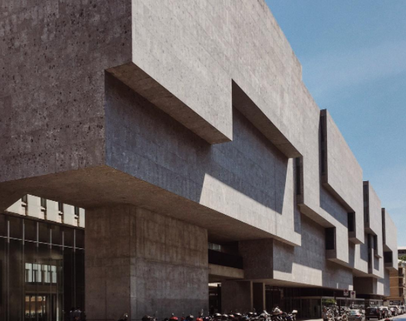 Grafton Building in Via Röntgen